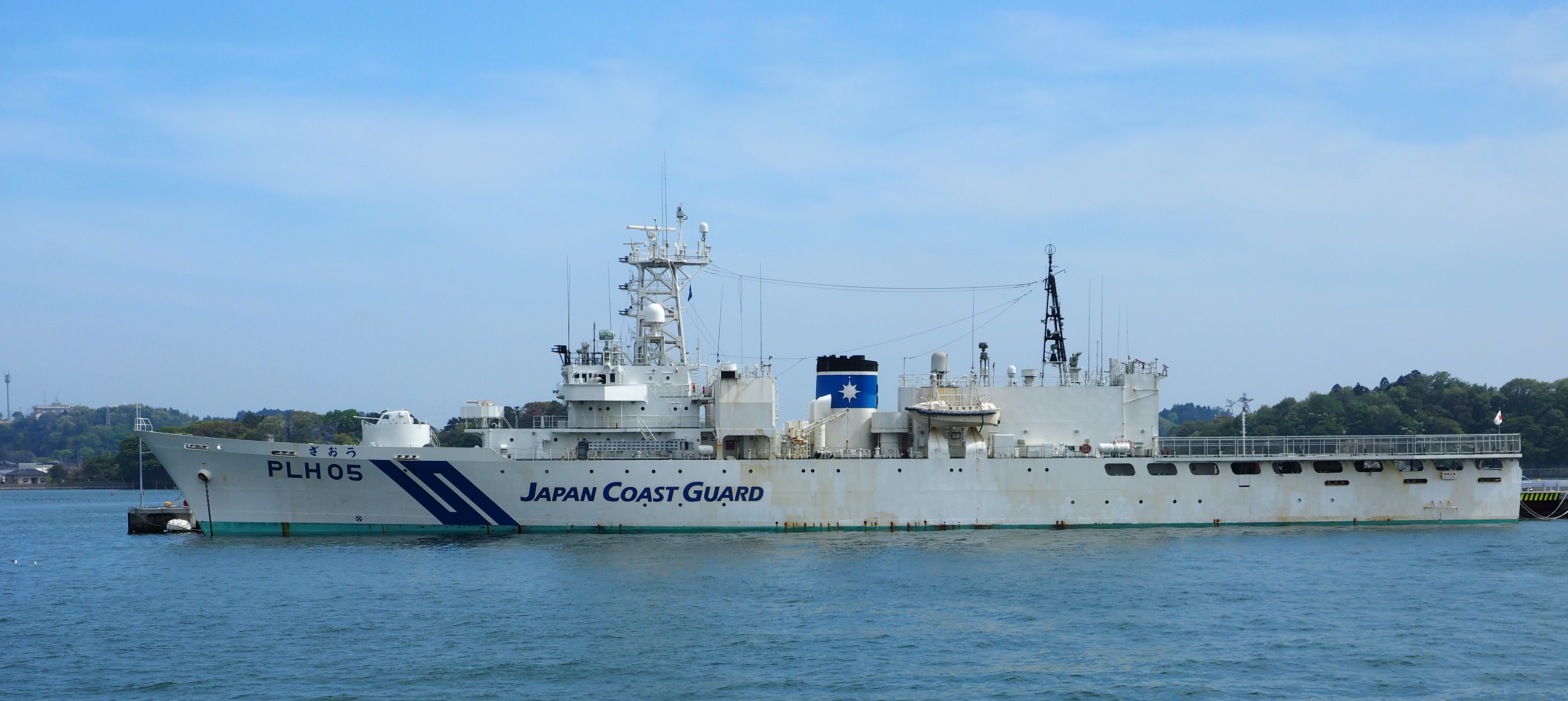 PLH-05 Zao of Japan Coast Guard. A Tsugaru class patrol vessel belonged to the Second Regional Coast Guard Headquarter. On the Siogama port, Shiogama, Miyagi prefecture, Japan.